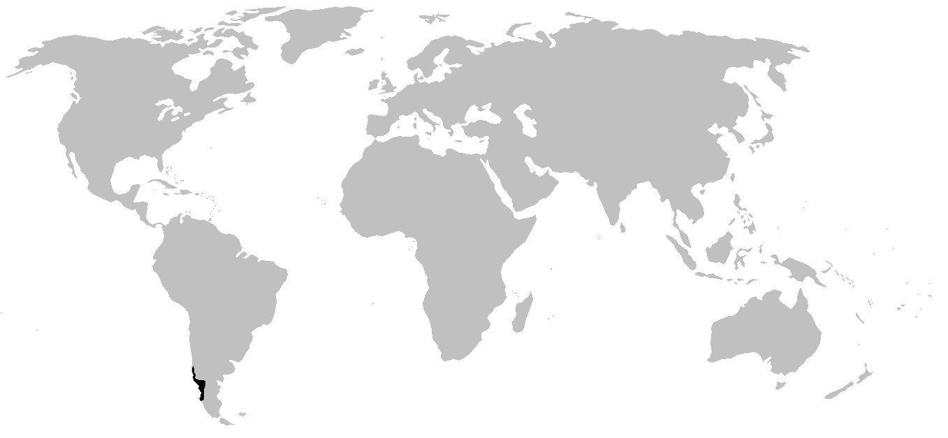 Distribution of Rhinodermatidae.